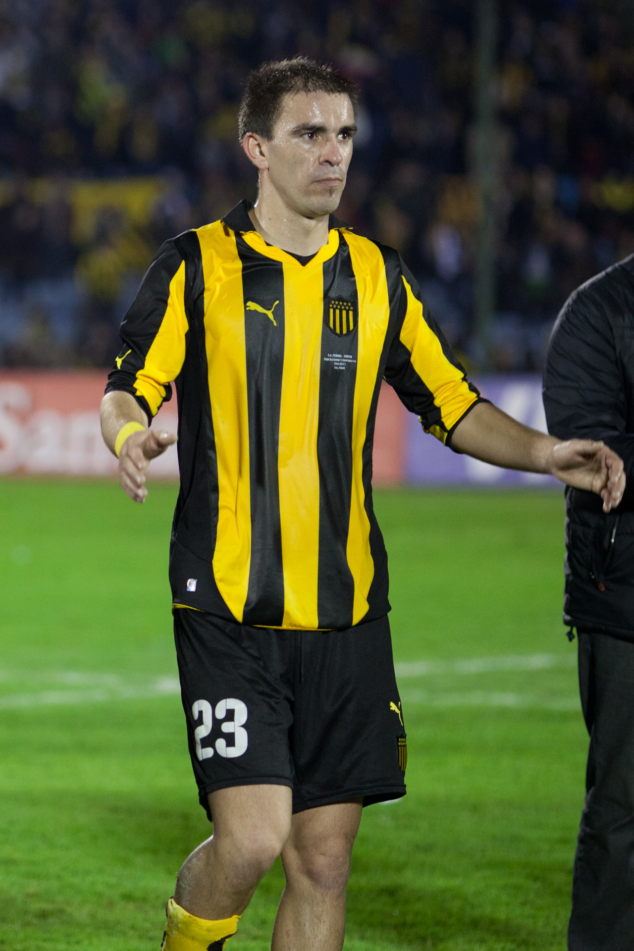 Carlos Valdez, uruguayan football player during the Copa Libertadores match CA Peñarol v. Santos FC